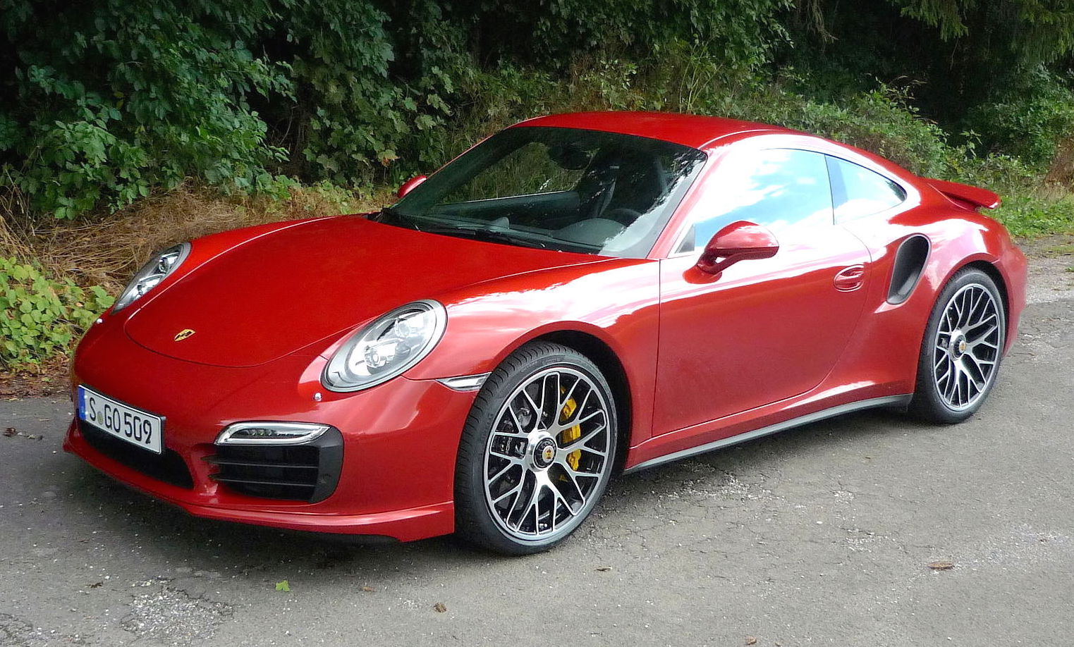 Porsche Turbo S (991)